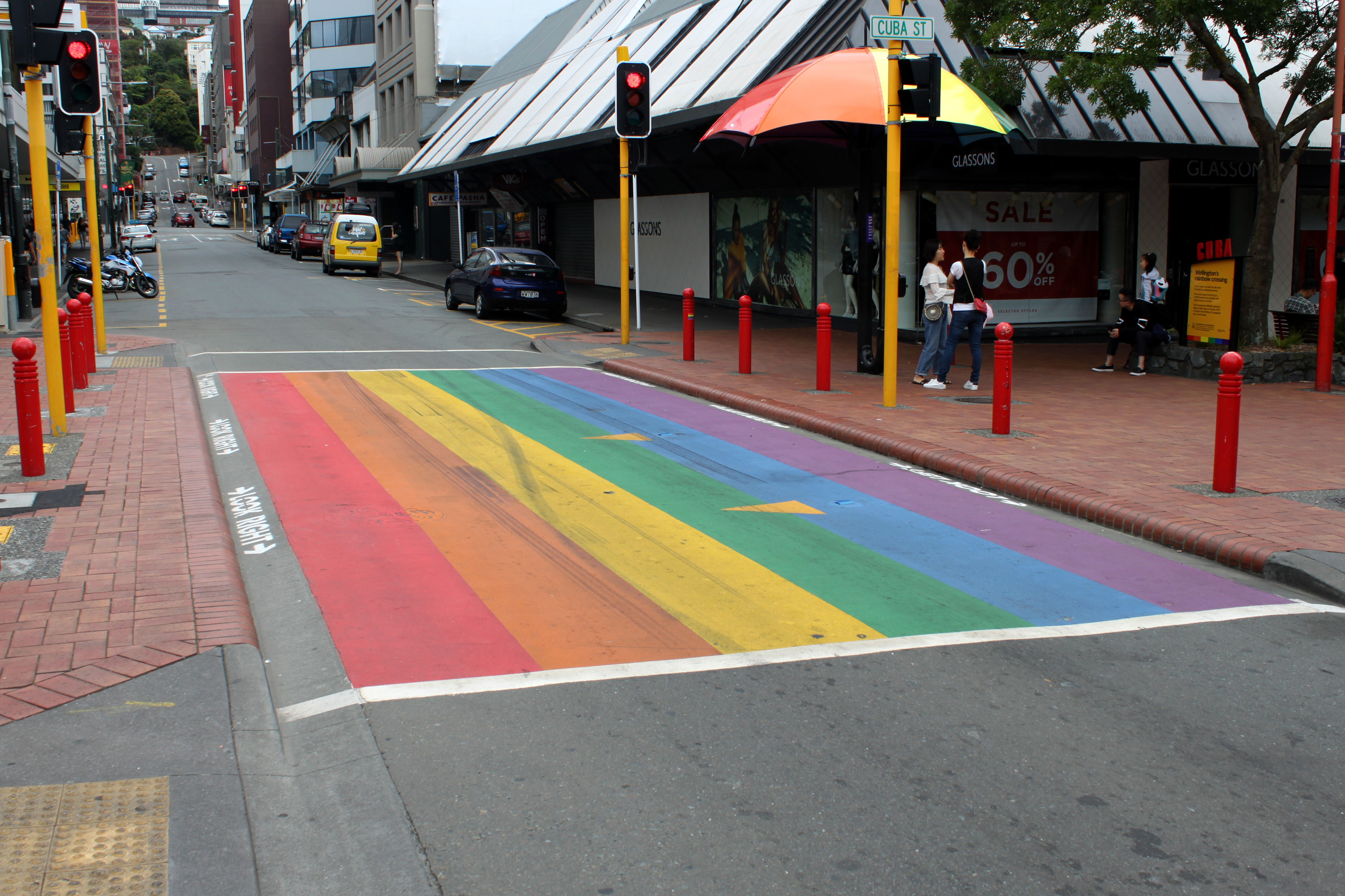 Wellington's rainbow crossing at the intersection of Cuba Mall and Dixon Street, Wellington, New Zealand. The crossing was launched on 10 October 2018 to honour the birthday of Carmen Rupe.